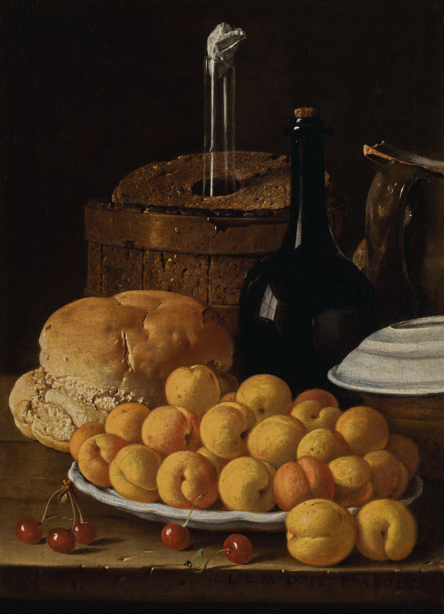 Still life with a plate of apricots, cherries, bread, a wine cooler and receptacles Property from a European Private Collection LUIS MELÉNDEZ Naples 1716 - 1780 Madrid signed and dated on the table edge lower right: L.S E. M.Z D.ZO I S.TO P.E ANO. 1765 oil on canvas 48 x 35 cm.; 19 x 13 in.